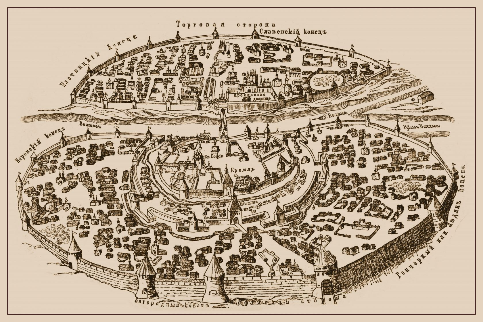 Map of Velikiy Novgorod (reconstruction)